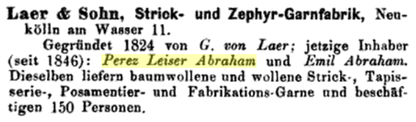 Perez Leiser Abraham (1798-1882) in Handbuch der Leistungsfähigkeit der gesammten Industrie Deutschlands (1873)